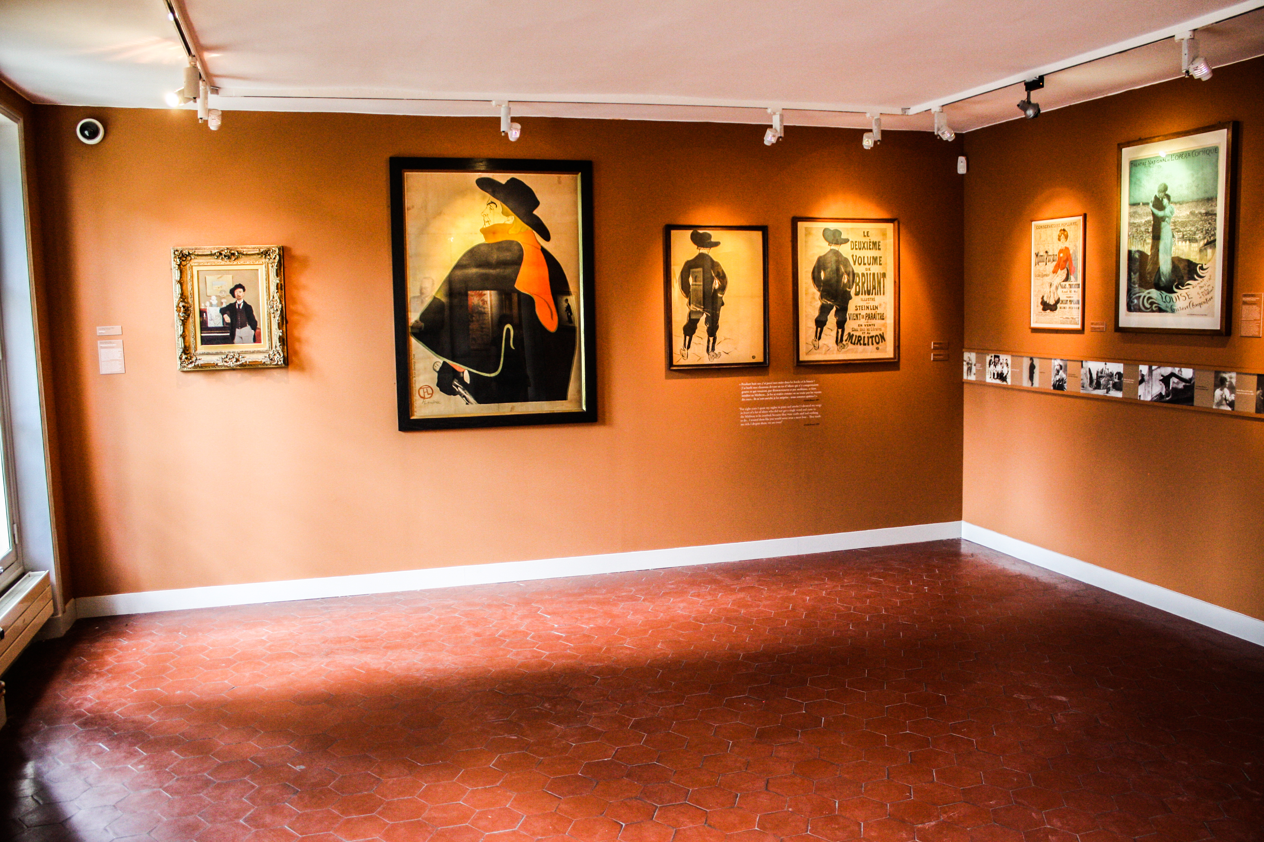 Montmartre Museum, Paris.